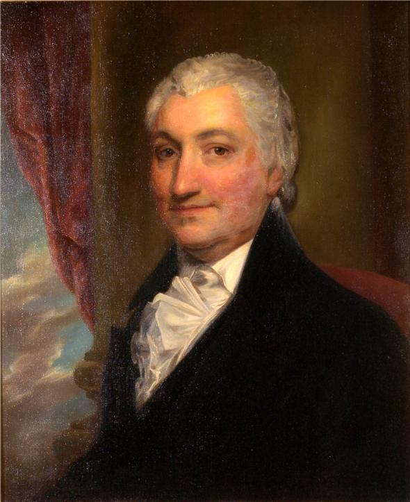 Portrait of Hugh Henry Brackenridge (1748 – 1816).